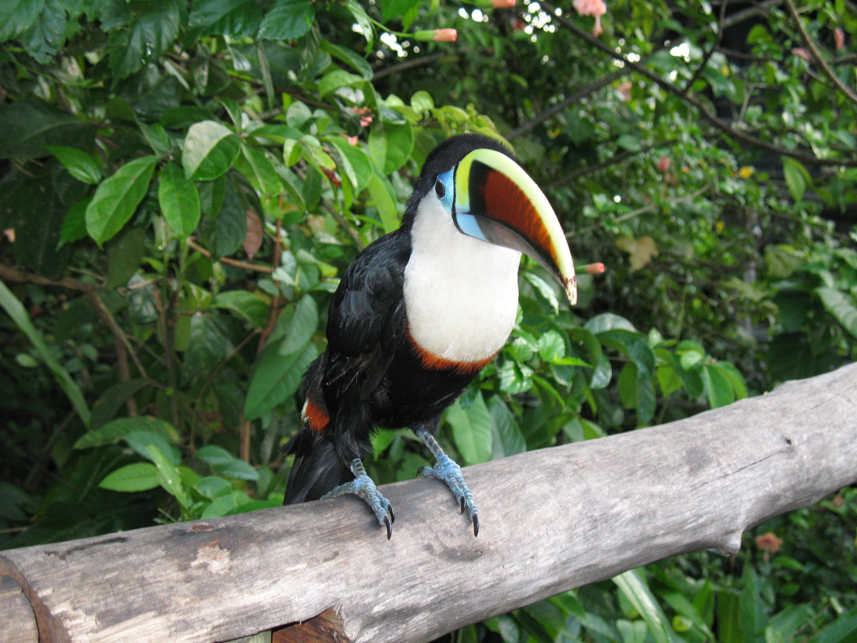 White-throated Toucan in Venezuela.